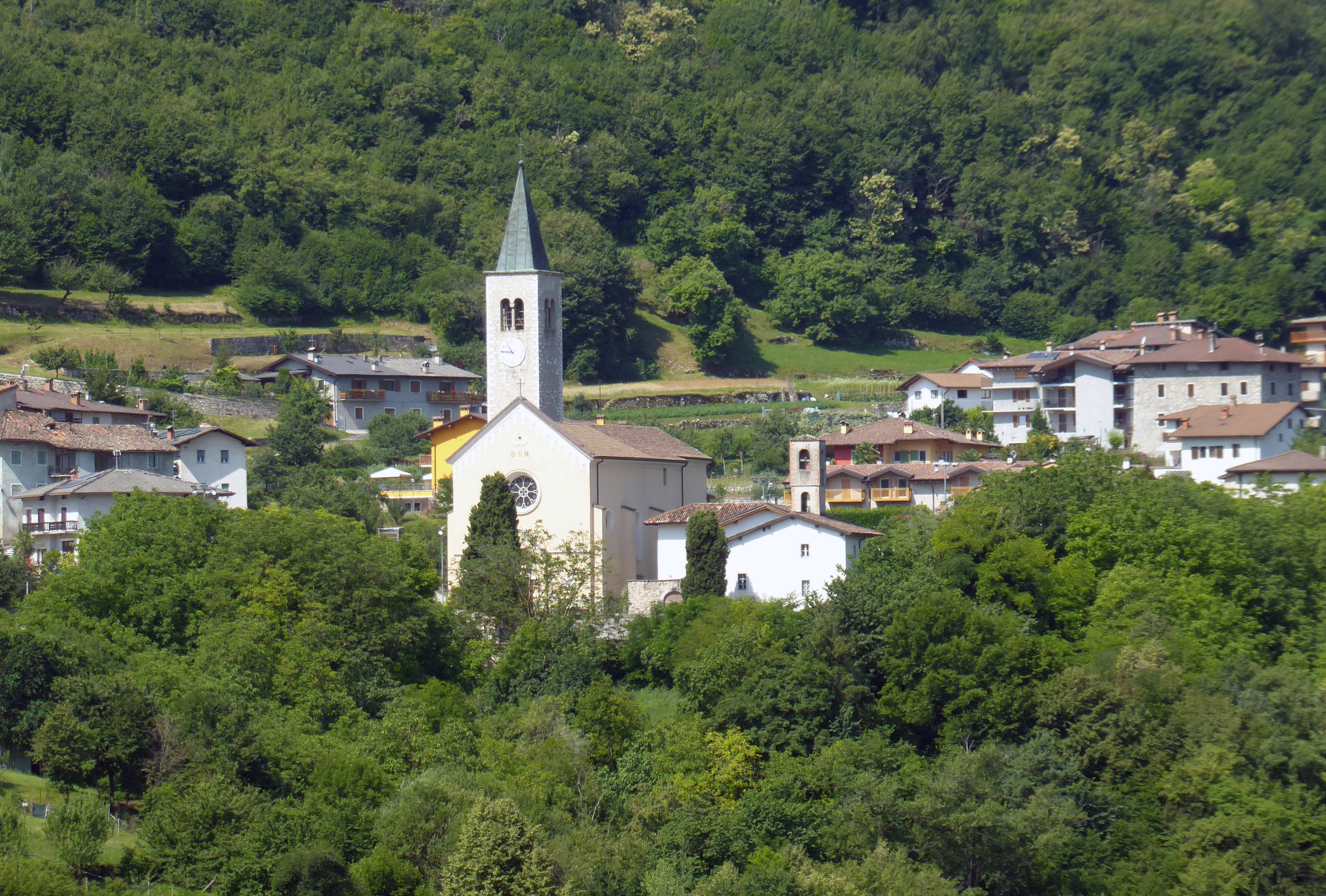 Corné (Brentonico, Trentino, Italy) - View with the two churches